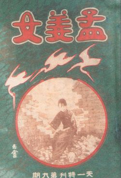 Lady Meng Jiang (1926) film poster on the Tianyi Film Company magazine